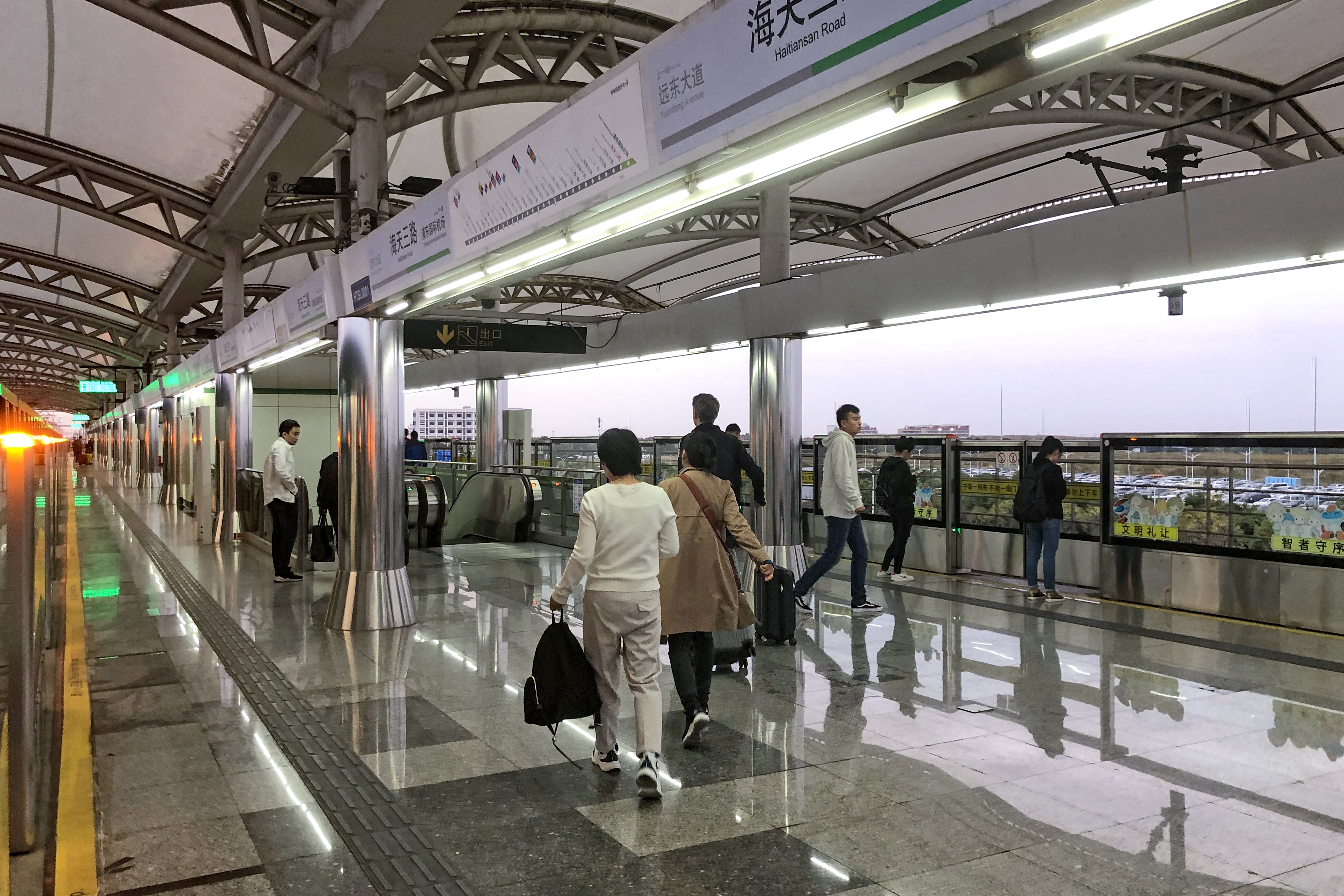 The wilderness near PVG.